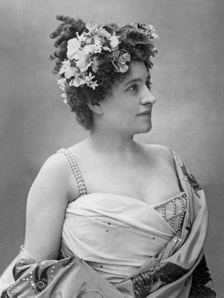 Actress Lucy Berthet in the role of Thaïs in Jules Massenet's opera of the same name.